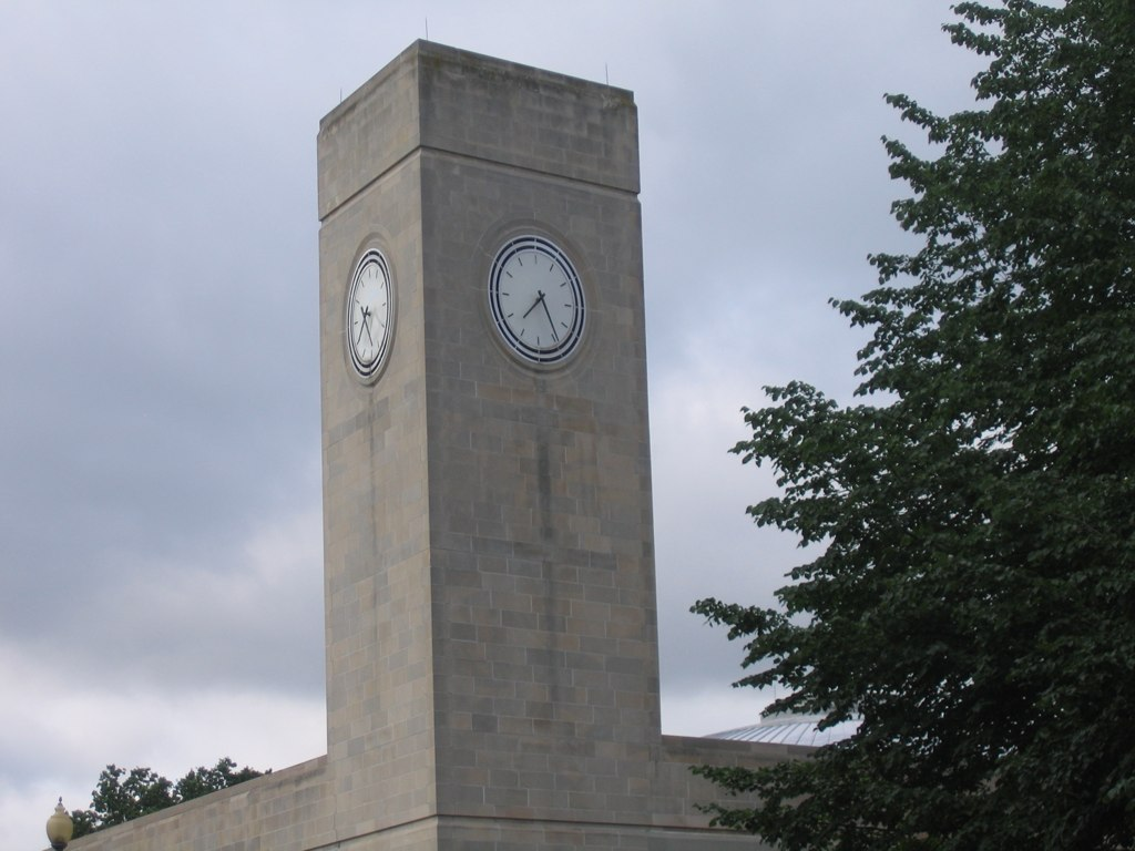 Clock tower at Providence Station